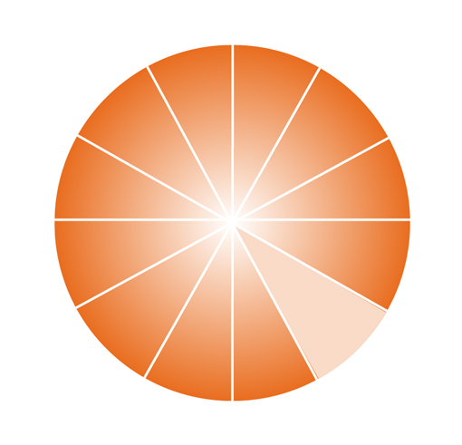 Official logo for D-Rev